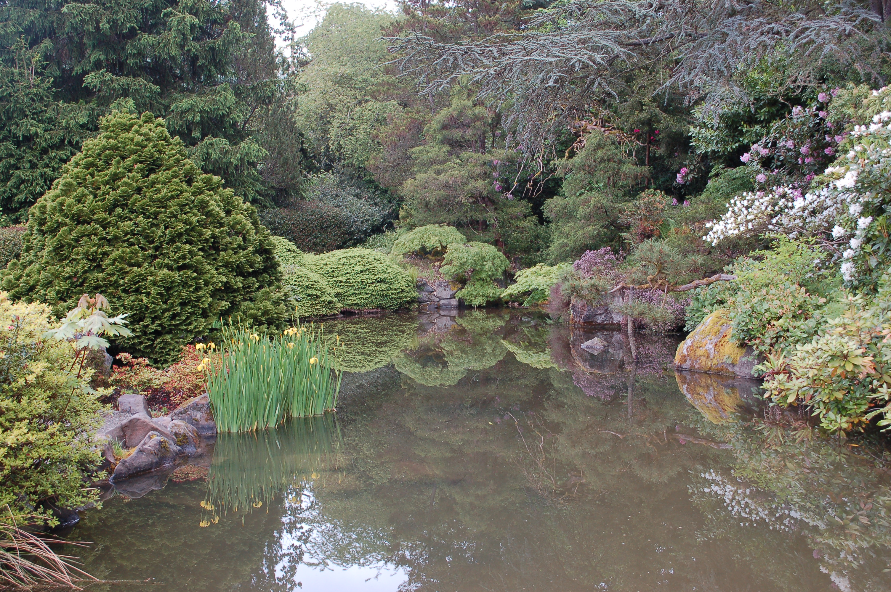 Pond at Seattle's Kubota Garden